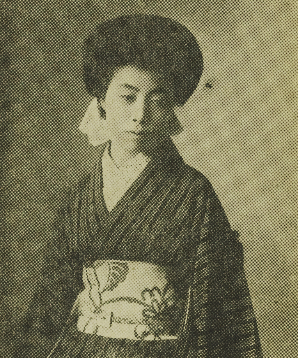 Portrait of Kato Shizue (加藤シヅエ, 1897 – 2001)